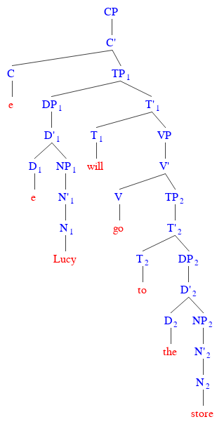 Syntax phrase structure tree of the sentence "Lucy will go to the store" - meant to illustrate the existence of Null Determiner